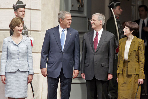 President George W. Bush, Mrs. Laura Bush, Hungarian President Laszlo Solyom and Mrs. Erzsebet Solyom participate in an official arrival ceremony at Sandor Palace in Budapest, Hungary, June 22, 2006. White House photo.